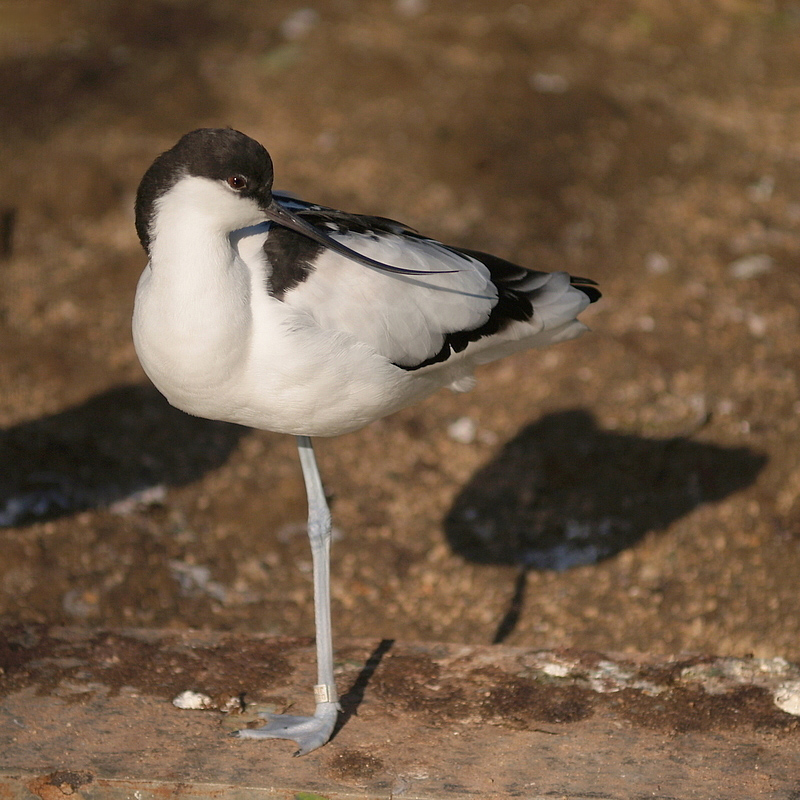 ソリハシセイタカシギ Pied Avocet Species Recurvirostra avosetta (Linnaeus, 1758) Familia Recurvirostridae Location Tennouji Zoo, Japan Copyright OpenCage